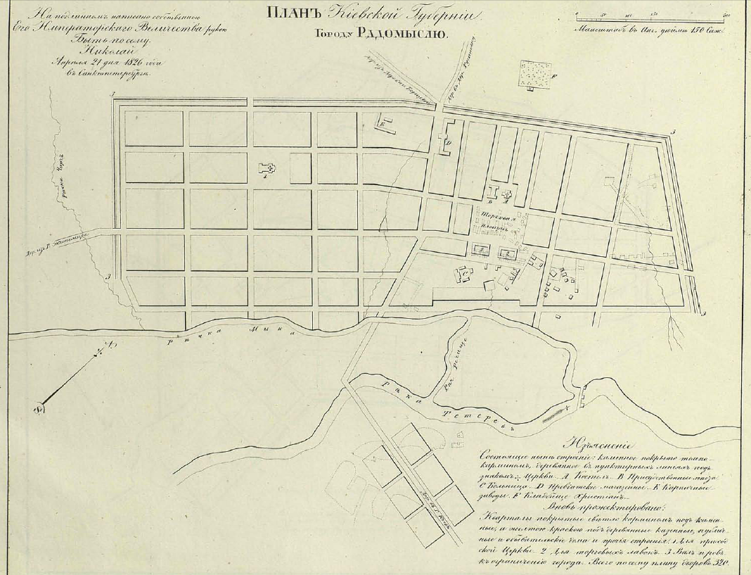 Plan of Radomysl city. 1826